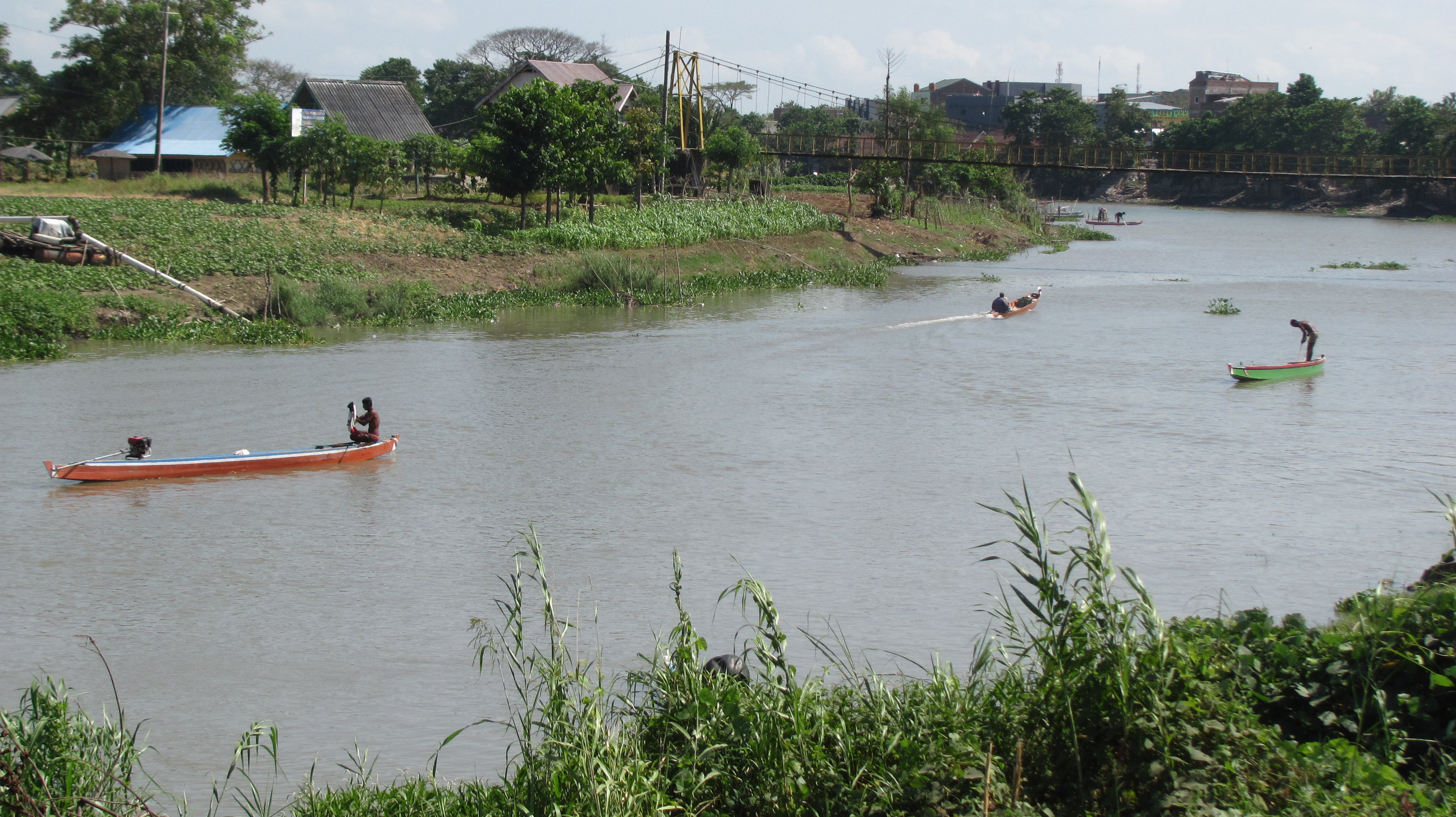 River Walanae near Sengkang, Sulawesi, Indonesia